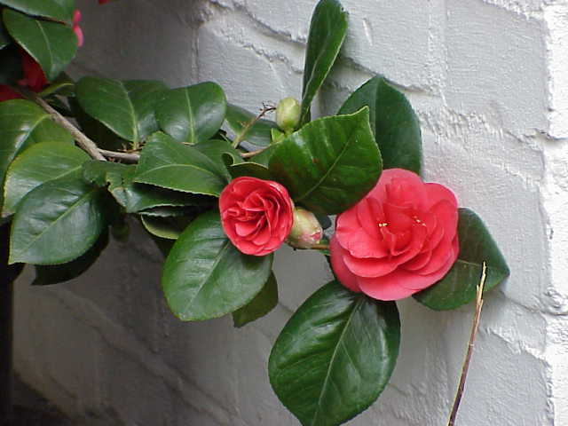 Species: Camellia japonica Family: Theaceae Image No. 2